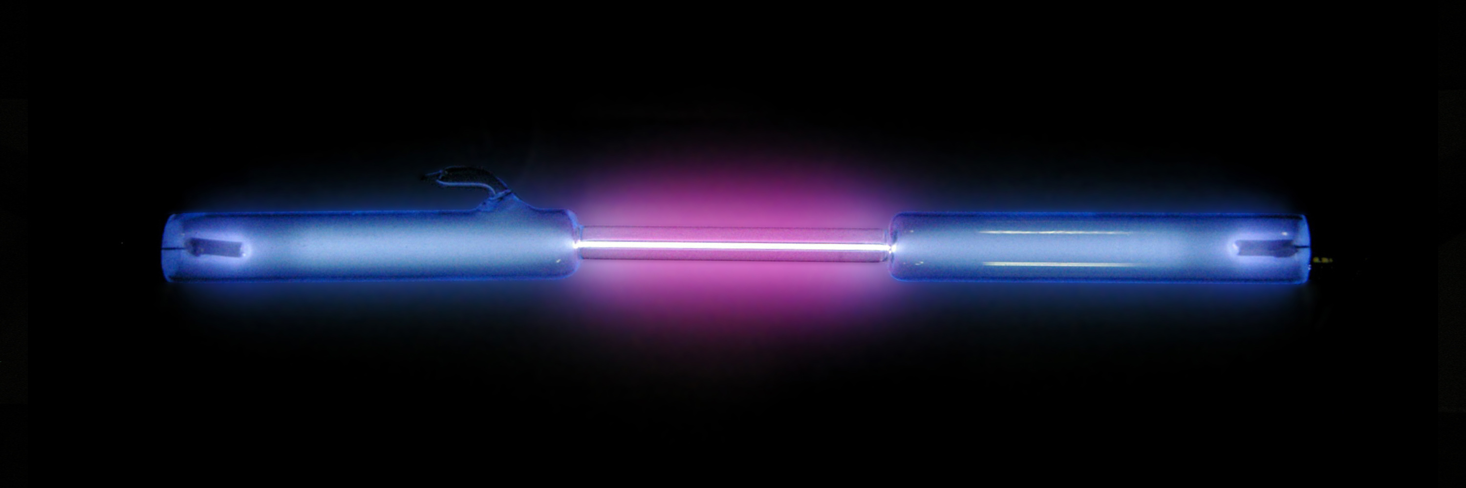 Spectrum = gas discharge tube filled with hydrogen H2. Used with 1,8kV, 18mA, 35kHz. ≈8" length.